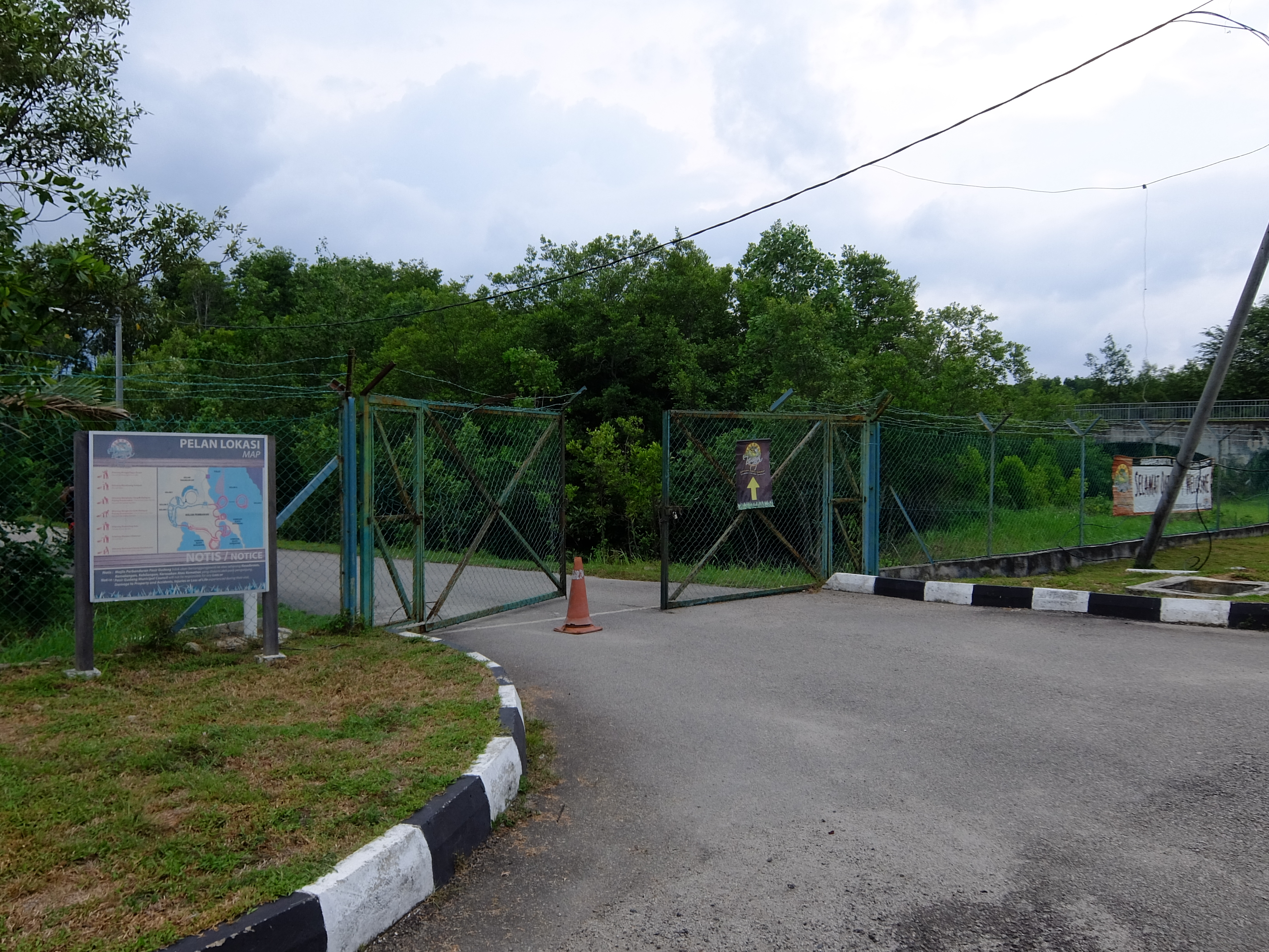 Sarang Buaya, Tanjung Langsat Industrial Area, Pasir Gudang, Johor Bahru, Johor, Malaysia